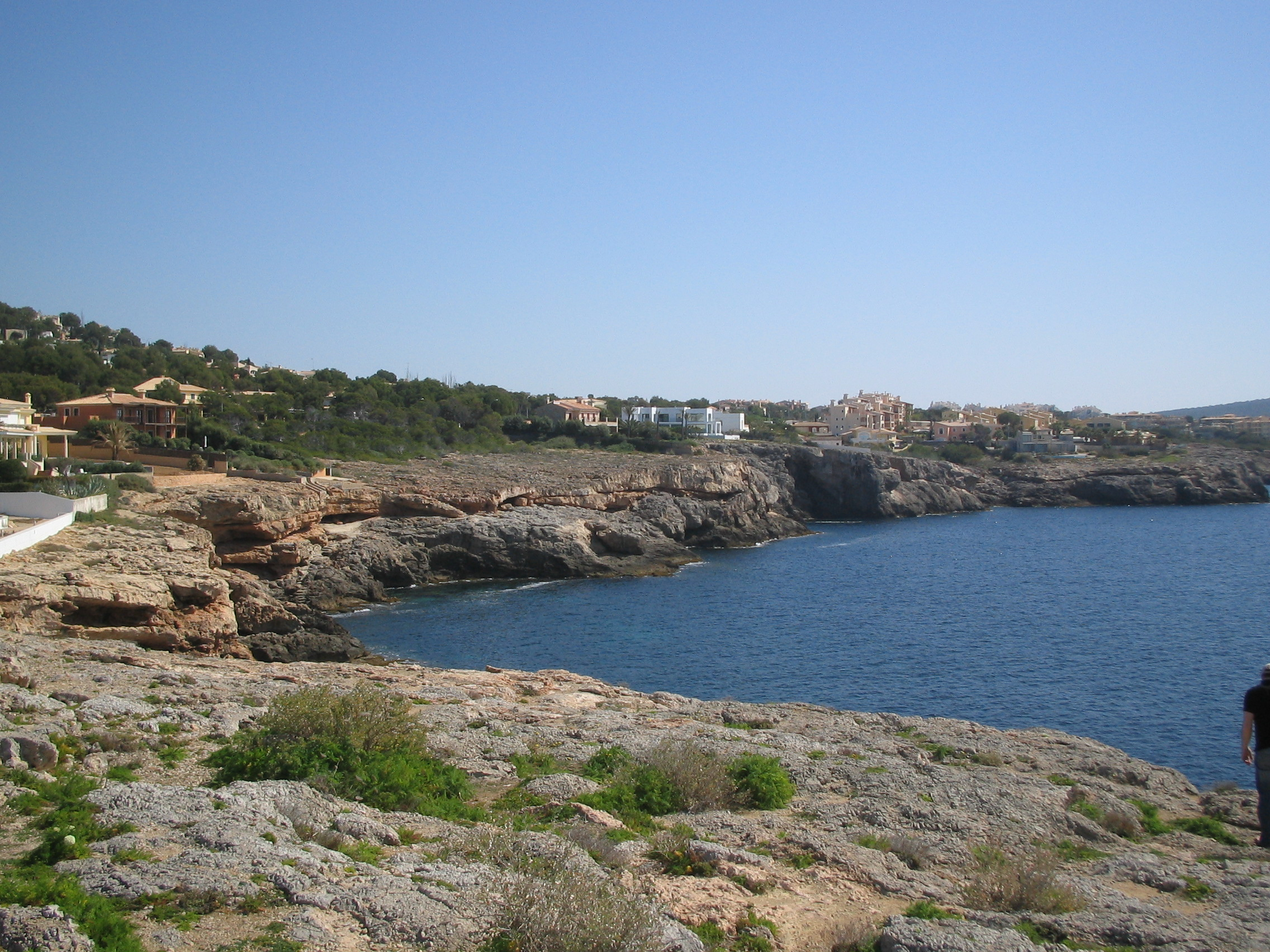 Border of the coast at Nova Santa Ponsa in Mallorca.